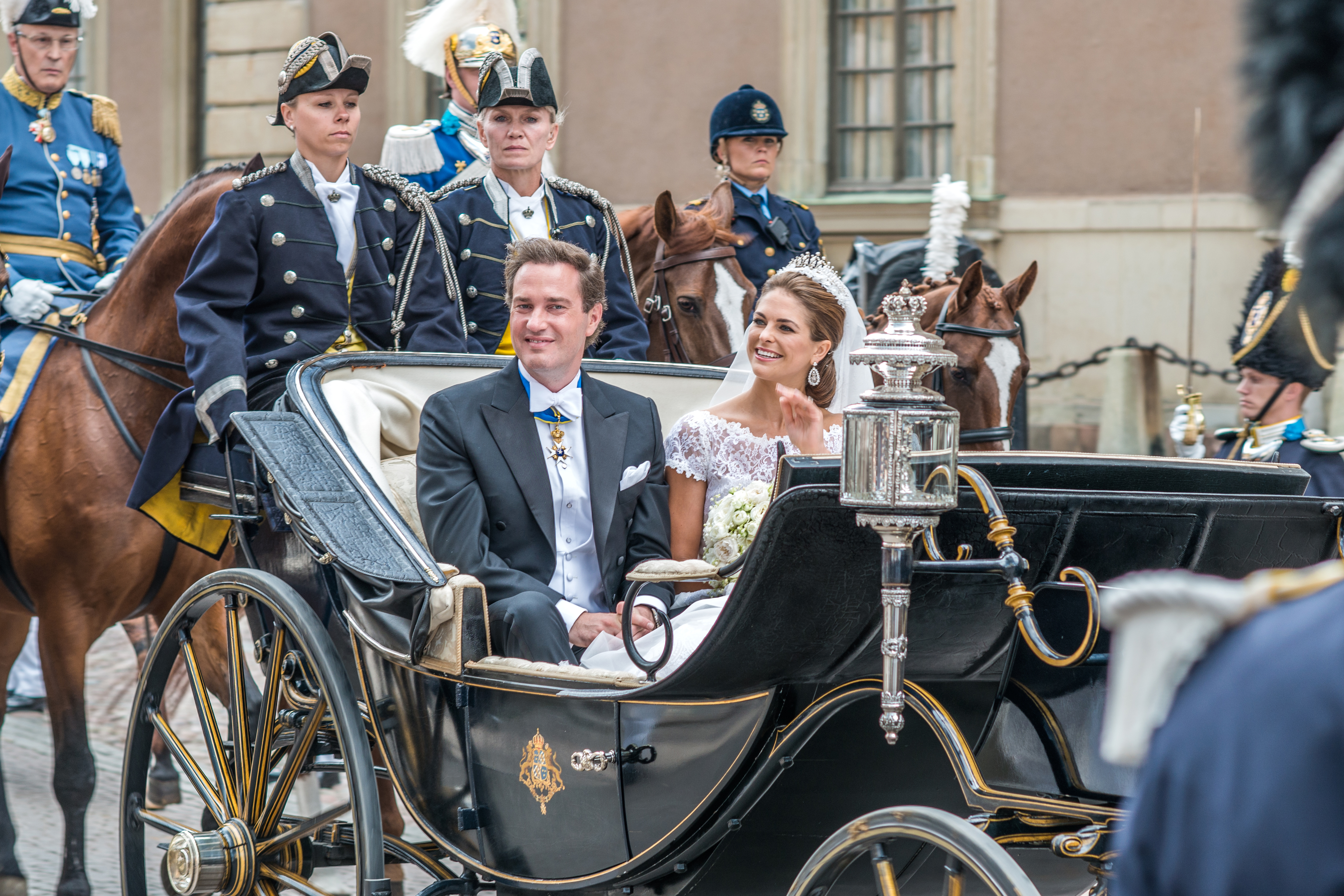 Princess Madeleine of Sweden and Christopher O´Neill wedding June 2013